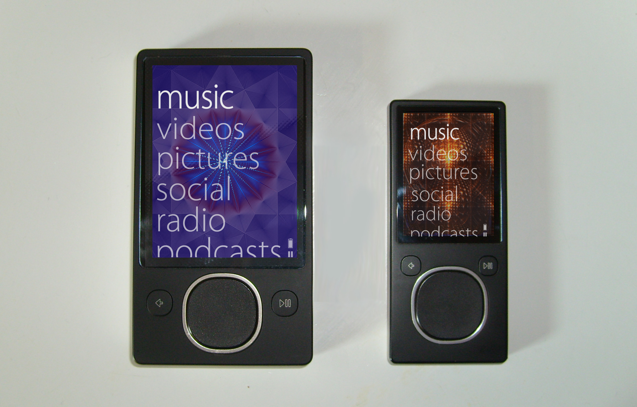 A side-by-side comparison of a black Zune 80 and Zune 4. Note the customizable screen backgrounds.